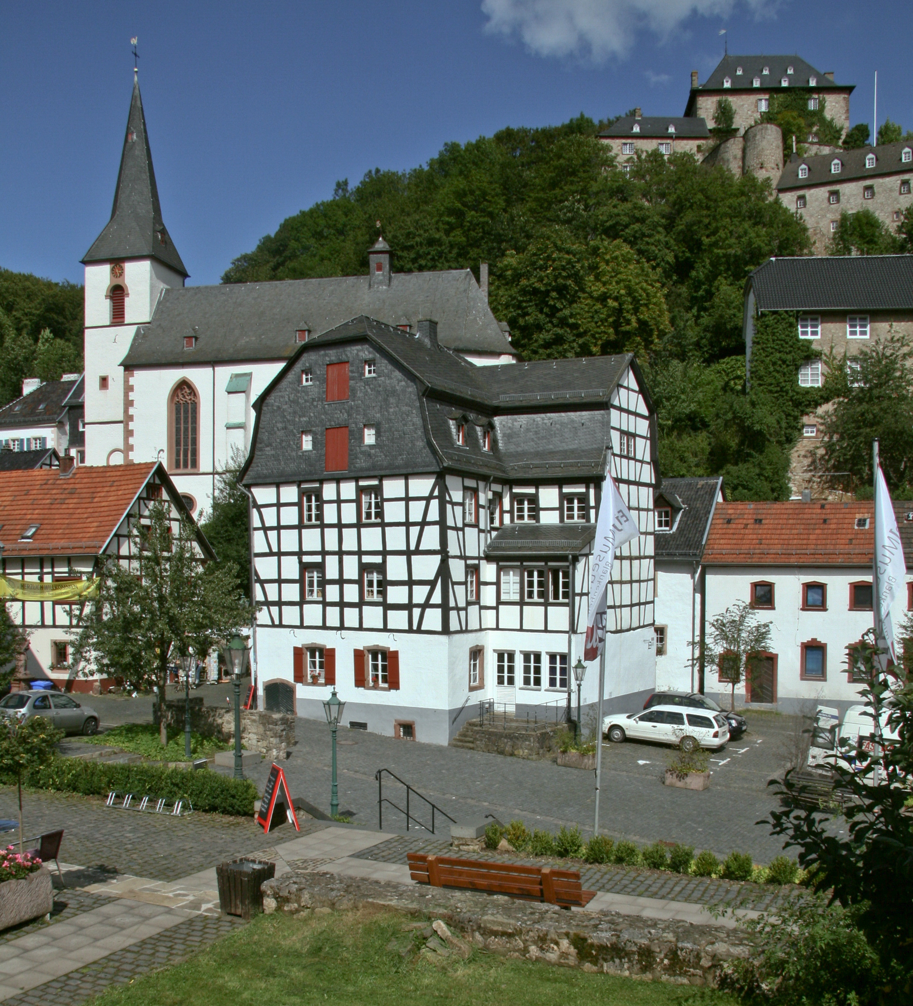 Parish church St. Mariä and castle Blankenheim, Blankenheim, county Euskirchen, North Rhine-Westphalia, Germany